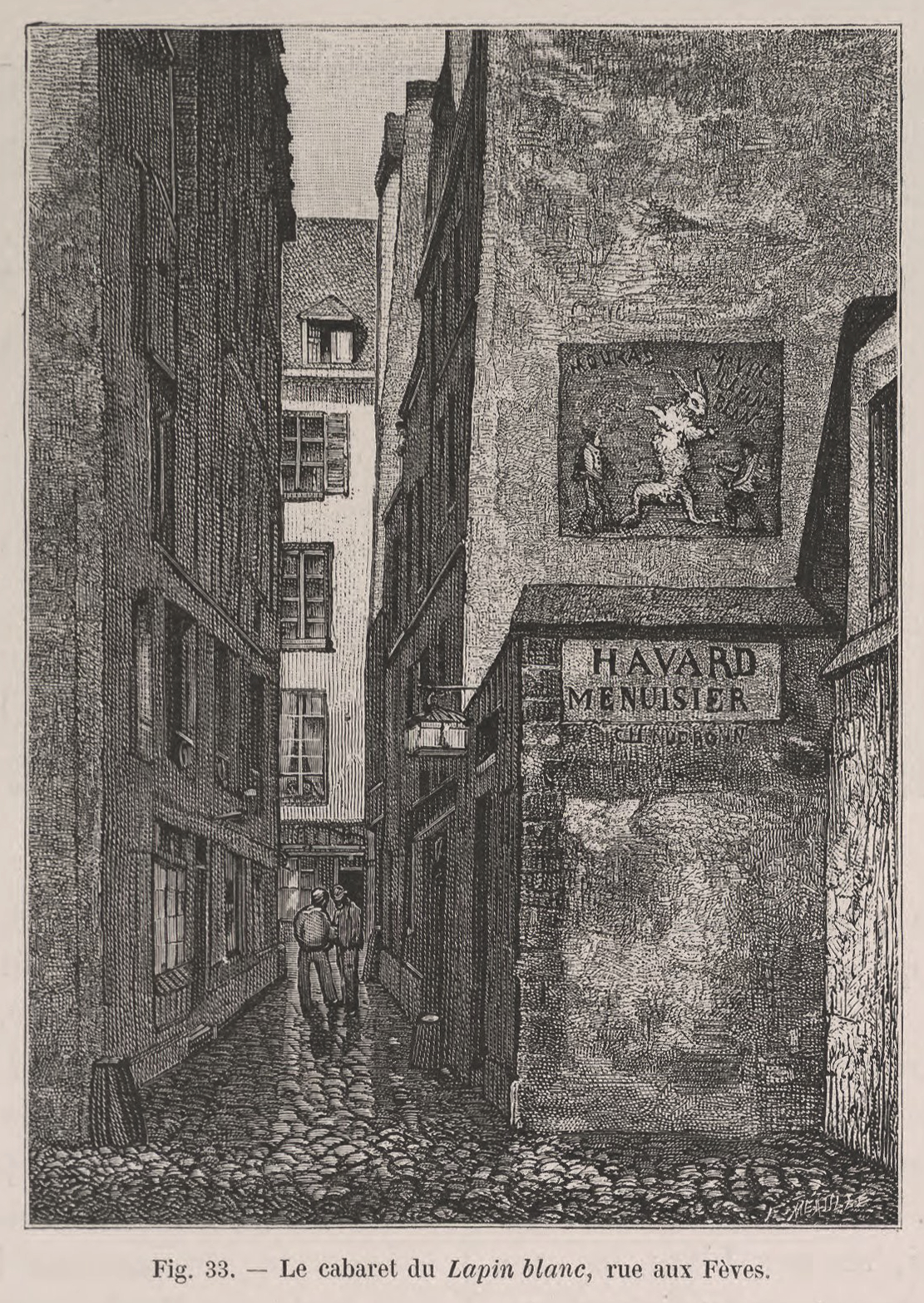 An exterior view of the Lapin Blanc cabaret, established in 1844 by a Gascon wine merchand named Mauras.